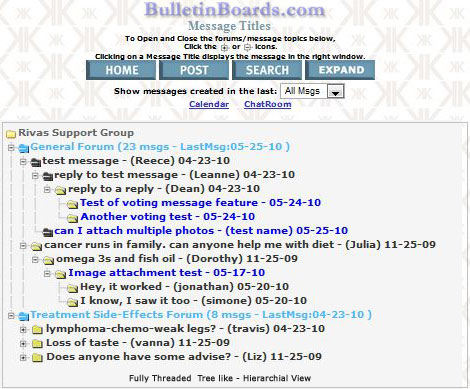 View of fully threaded message board